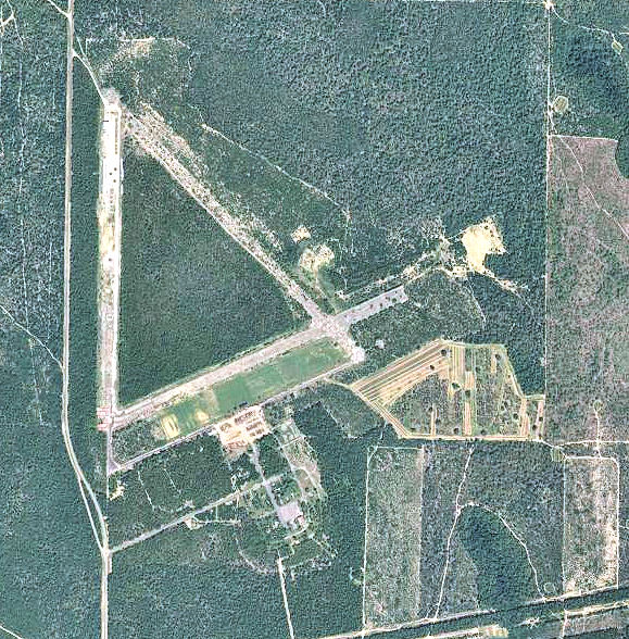 USGS digital orthophoto of Peel Field, an airfield in Florida